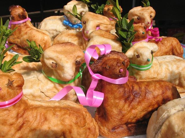 Pastry lambs baked for Easter day